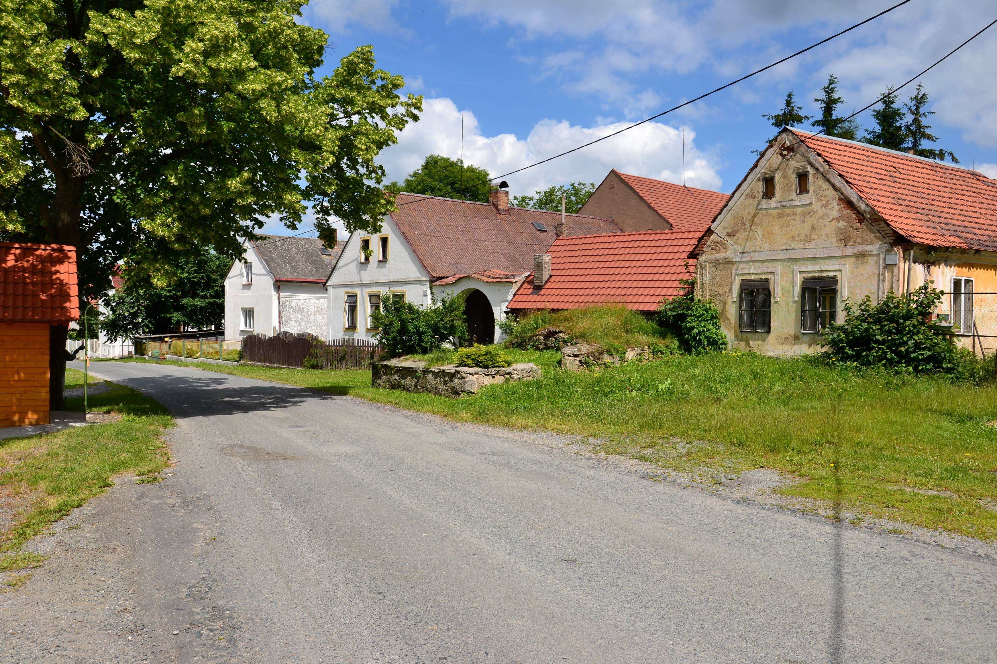 Houses on the north side of the village green